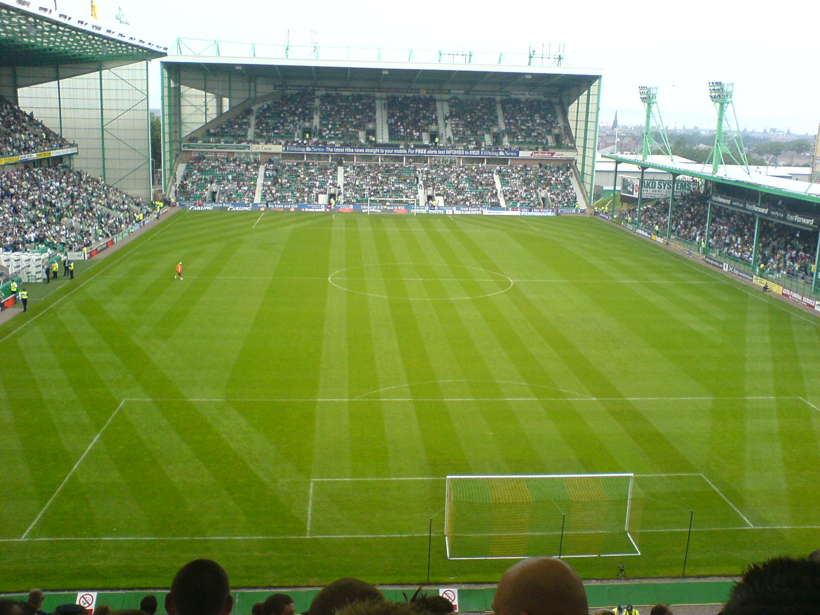 Photo taken by Euan Bain (User:Discosebastian) in Edinburgh on July 29th, 2006.